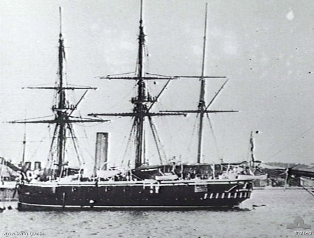 AWM caption : "SYDNEY, NSW. C.1890. PORT QUARTER VIEW OF THE THIRD CLASS CRUISER (FORMERLY SCREW CORVETTE) HMS CURACOA. IN THE LEFT BACKGROUND IS THE ARMOURED CRUISER HMS ORLANDO."